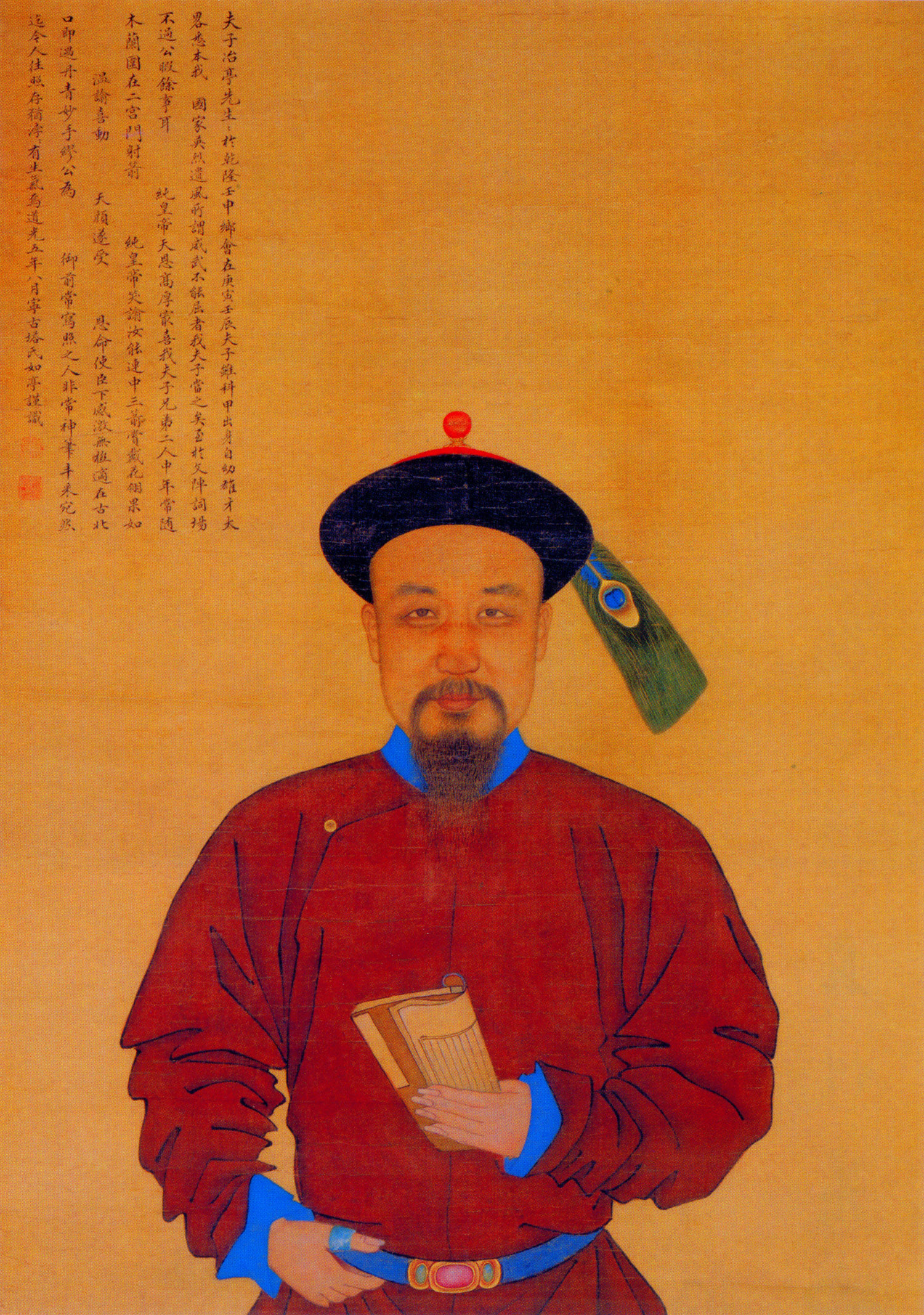 Tiebao, politician of the Qing Dynasty.